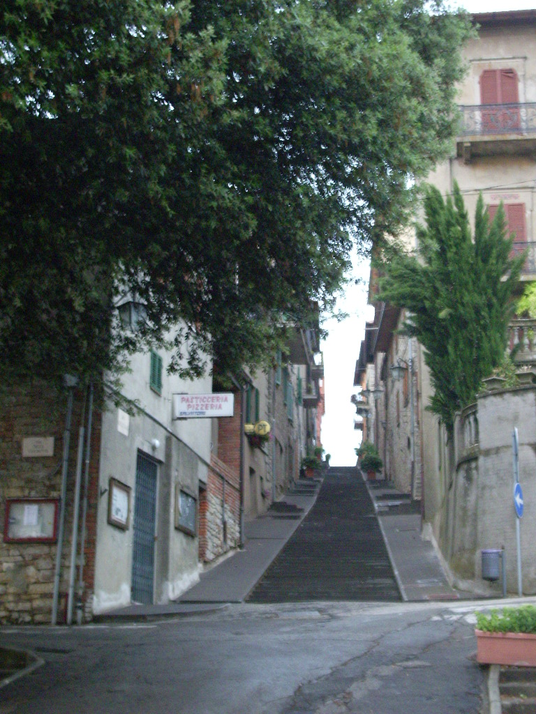 A view of a Street in the old center of Montegabbione